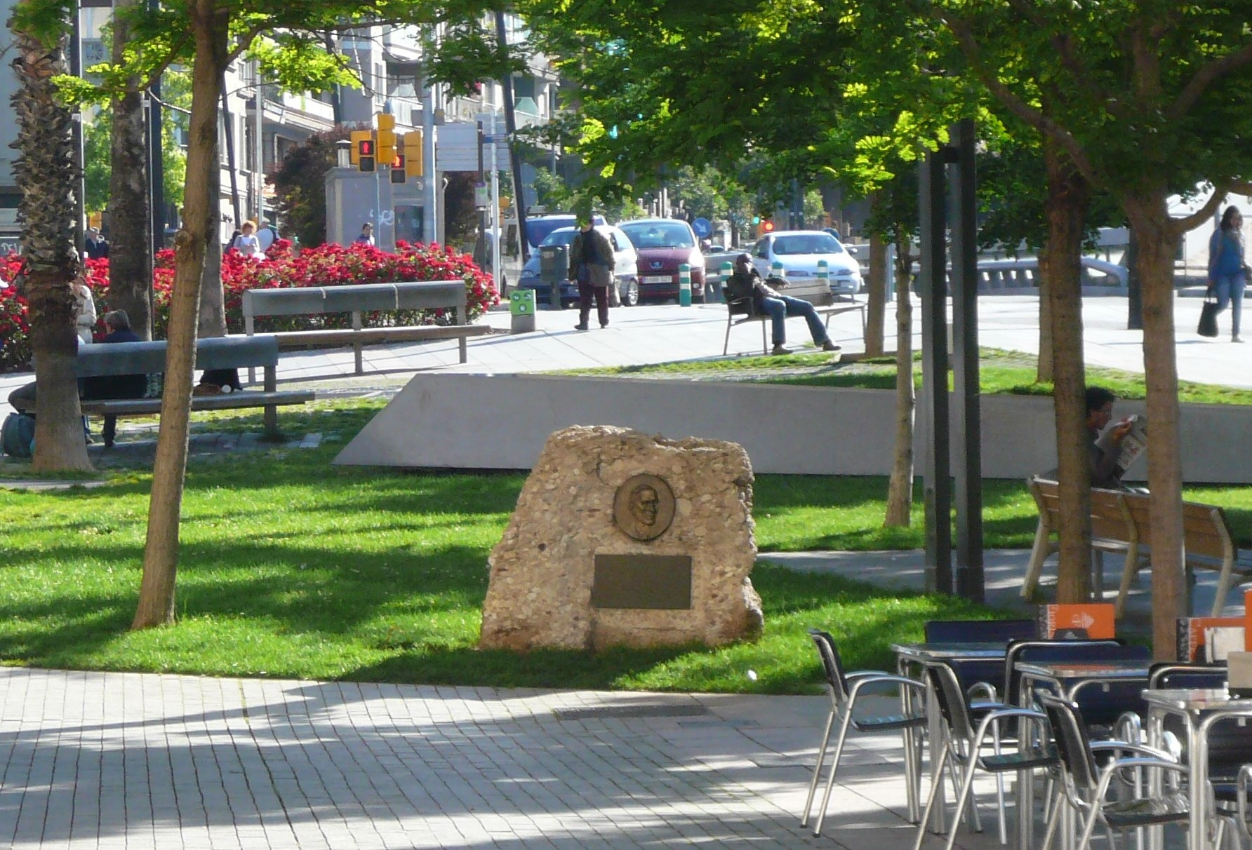 Photograph by Pere López reshaped in order to see the monolith betterOccitan : Fotografia de Pere López reducha per veire melhor lo monolit